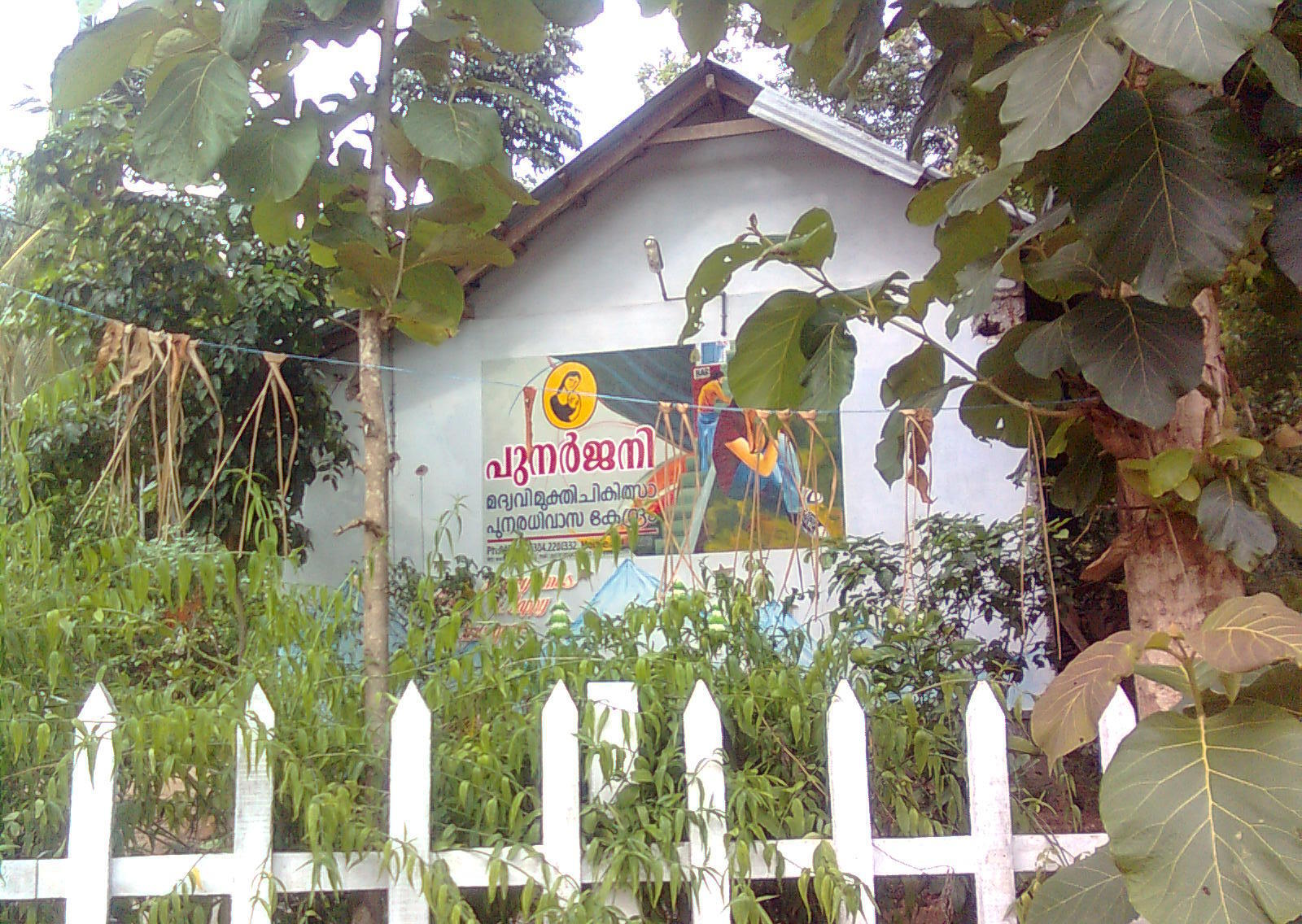 പൂമല This media file is uploaded with Malayalam loves Wikimedia event - 2.